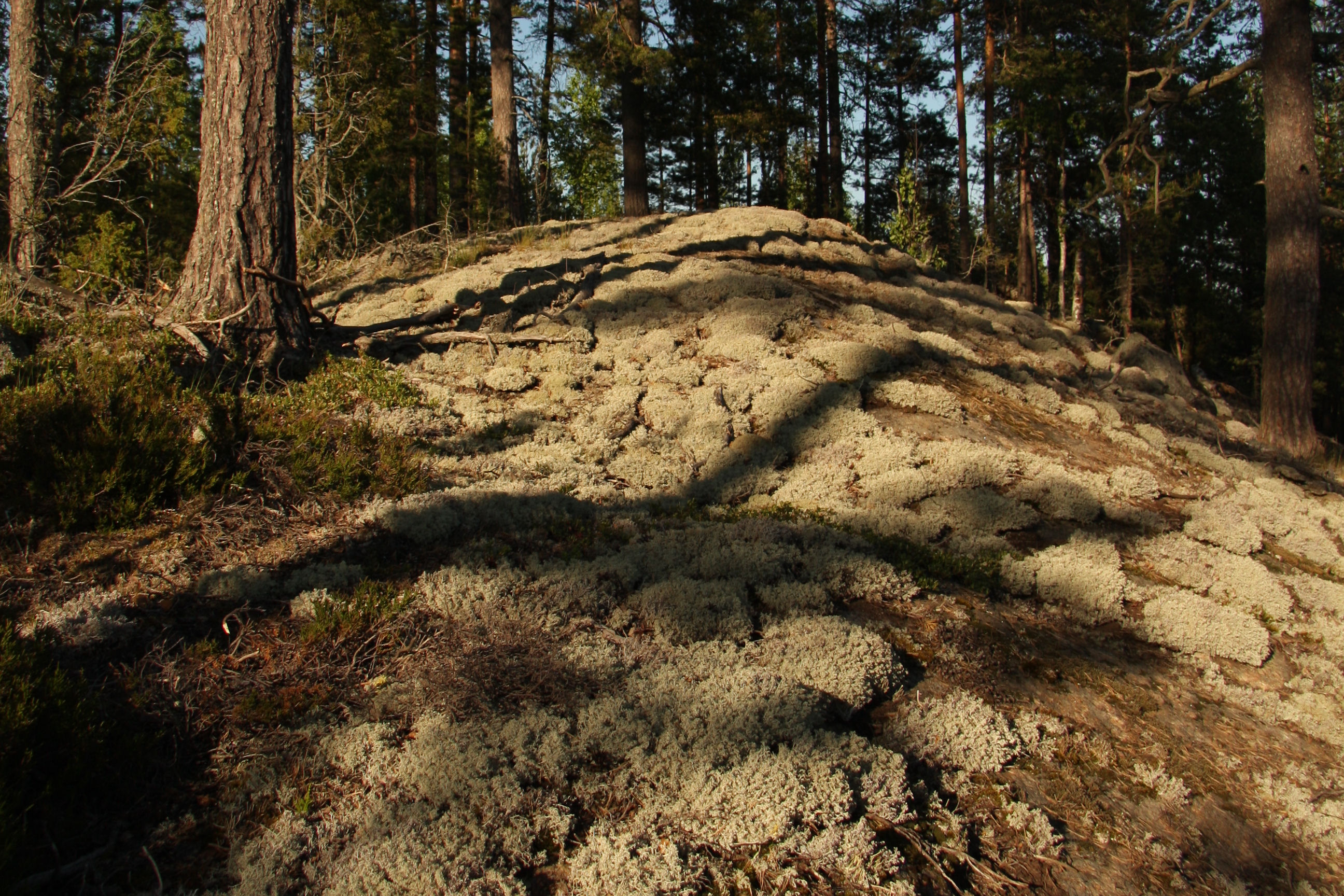 Bedrock covered by presumably reindeer moss (Cladonia rangiferina) in a Savonian forrest, Ristiina, Finland.